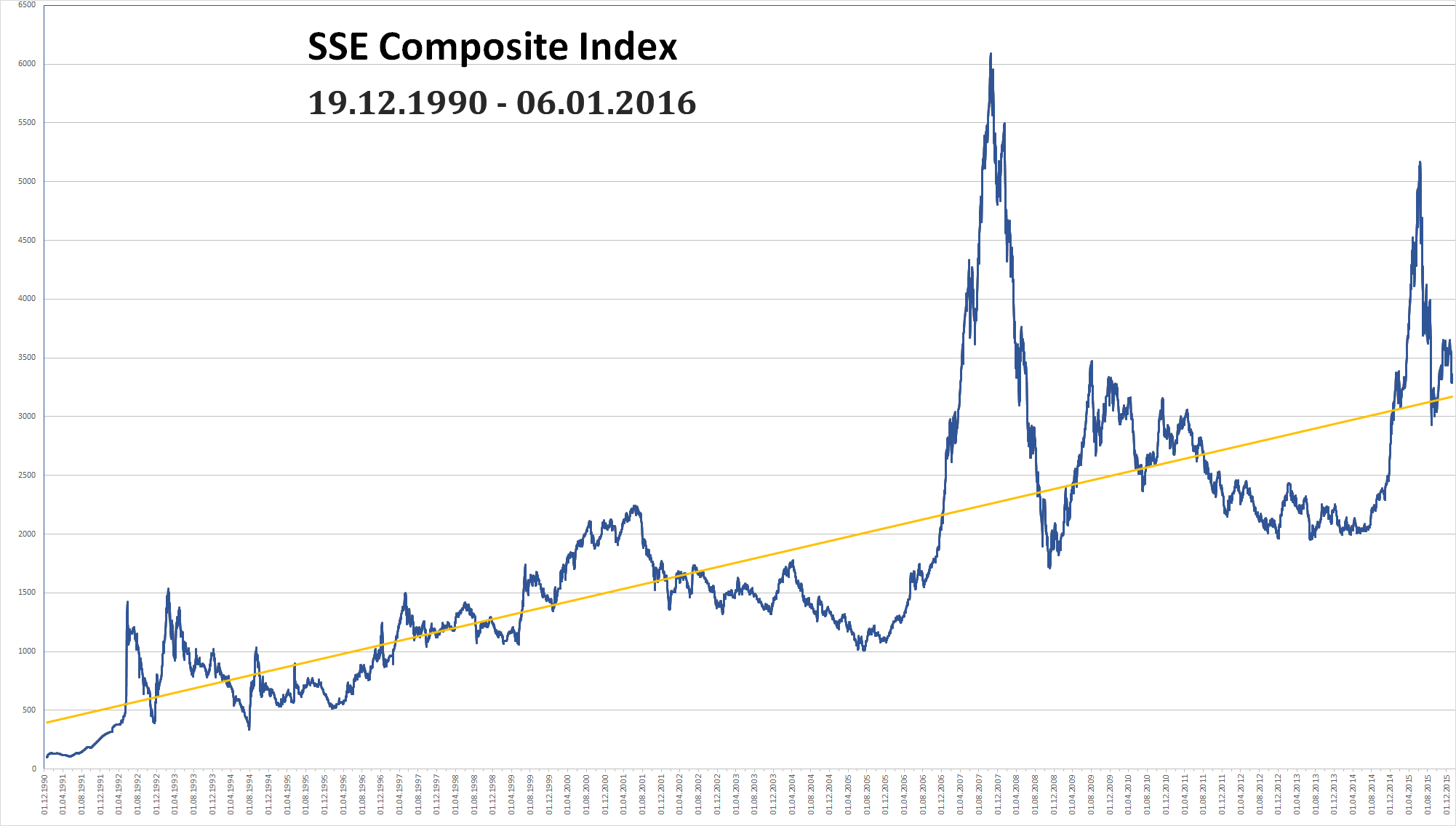 SSE Composite Index from December 1990 to 06.01.2016 (daily closings)